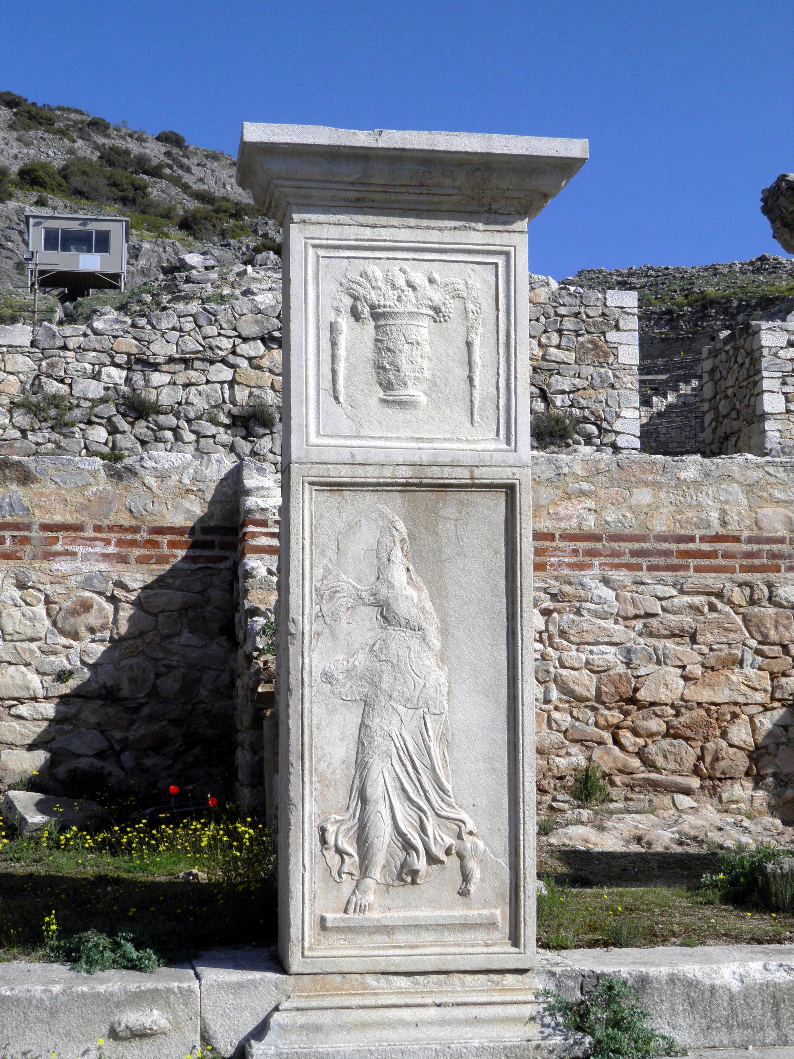 Relief decorations, Ancient Theatre, built by Philip II in the 4th century BC and later reconstructed by the Romans, Philippi